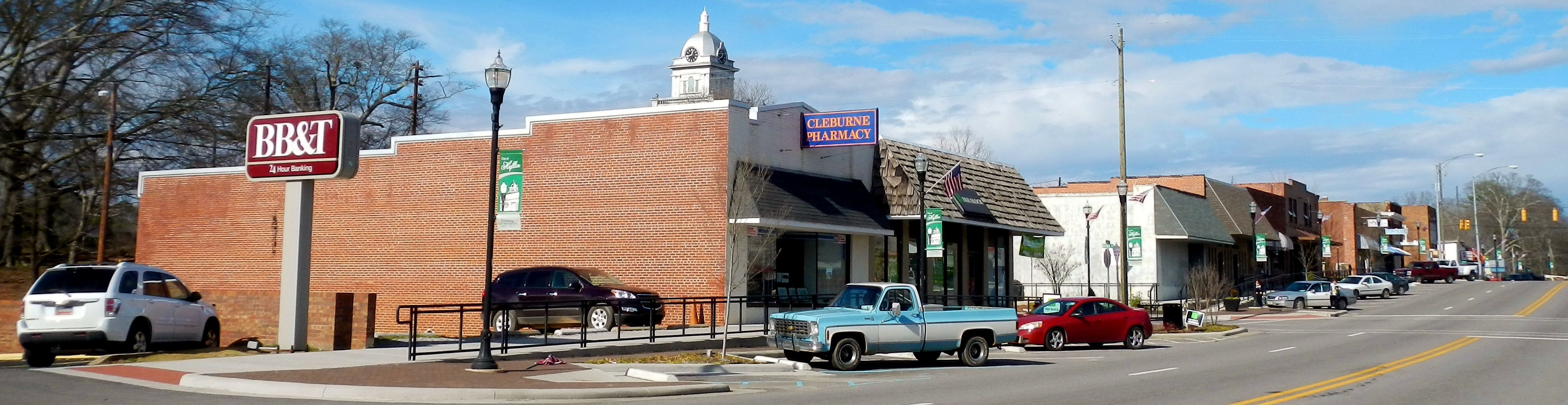 This is a photograph of Heflin, Alabama.